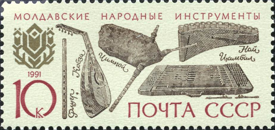 A USSR stamp